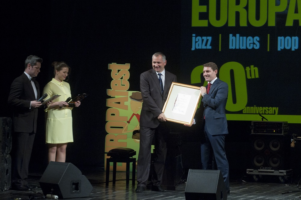 Gala2014